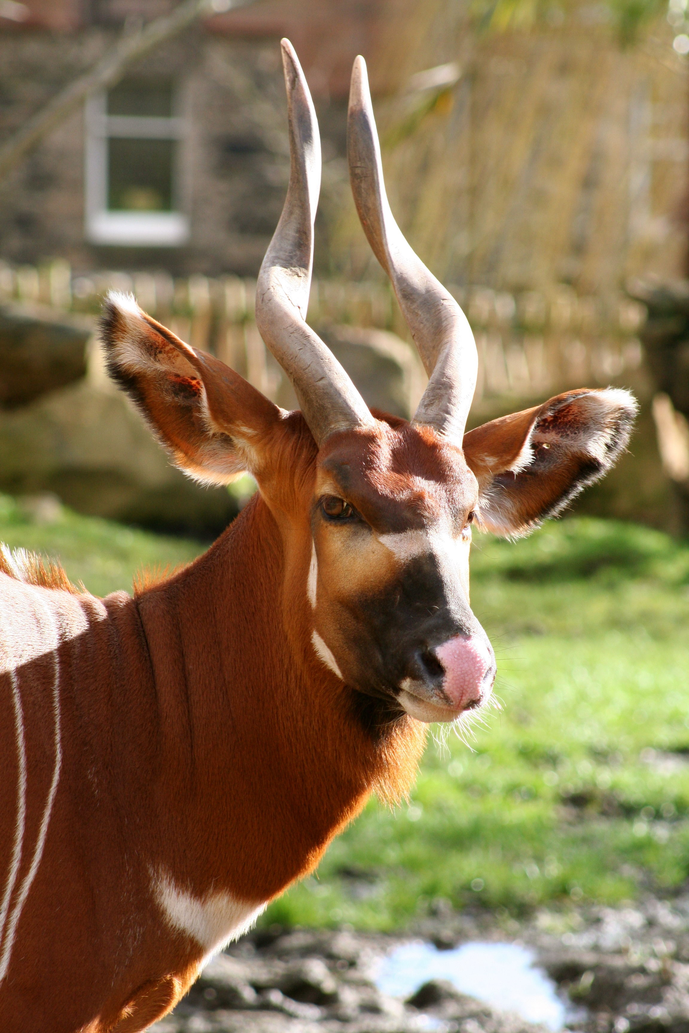 Eastern bongo (Tragelaphus eurycerus) at Edinburgh Zoo, 3rd March 2007.